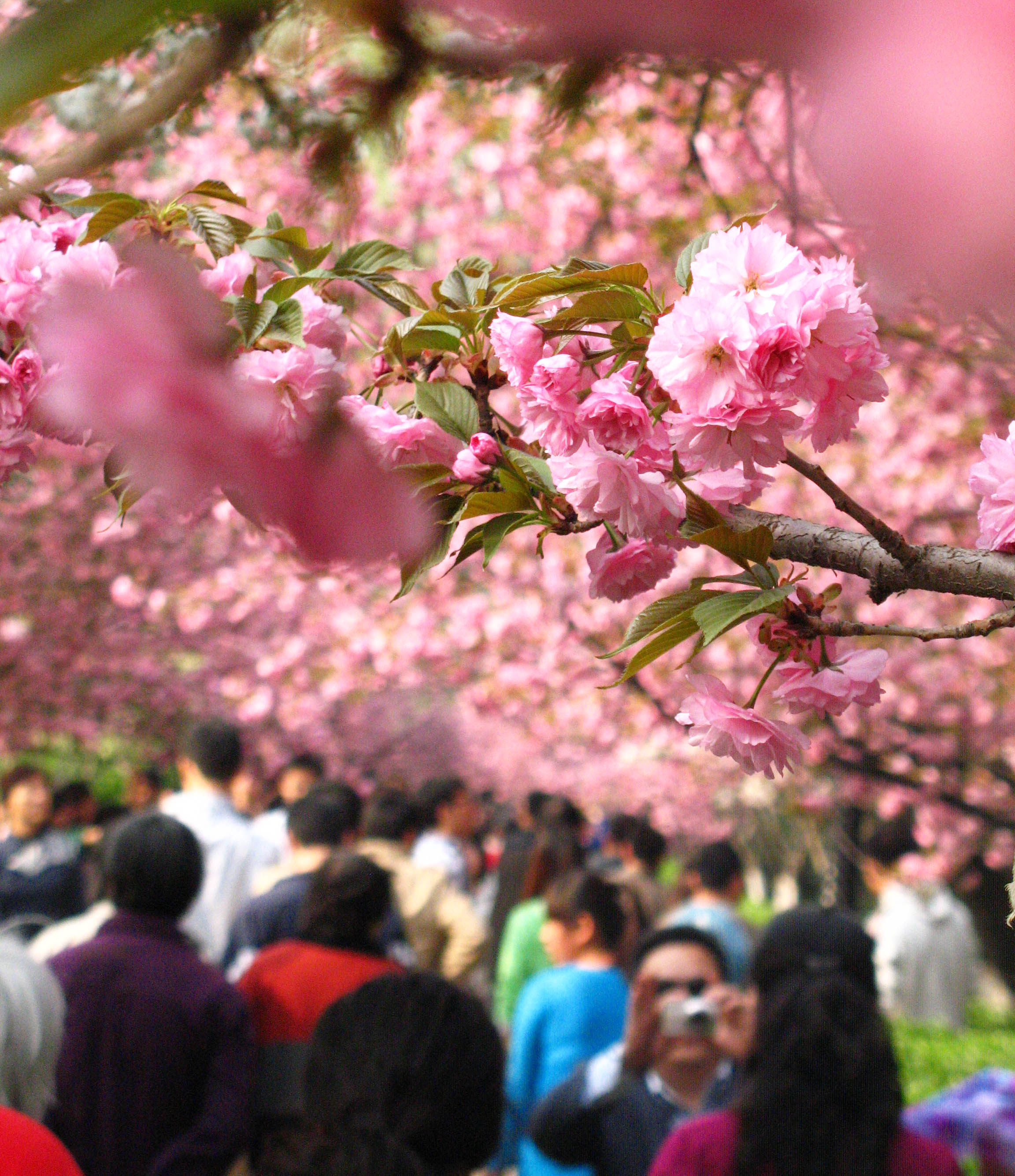 cherry blossom in XJTU